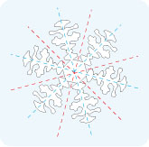 symmetry of a snowflake